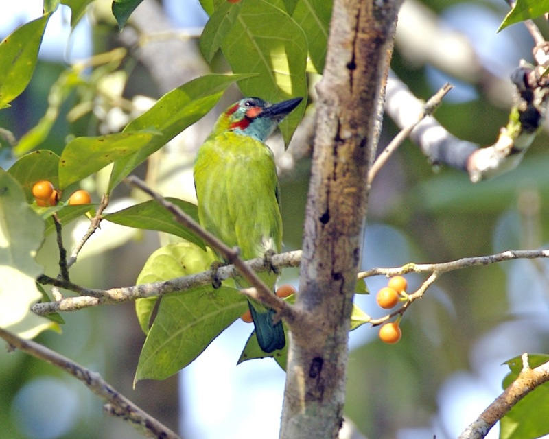 Blue-eared Barbet Psilopogon duvaucelii cyanotis (syn. Megalaima australis cyanotis), Phuket Island, South Thailand